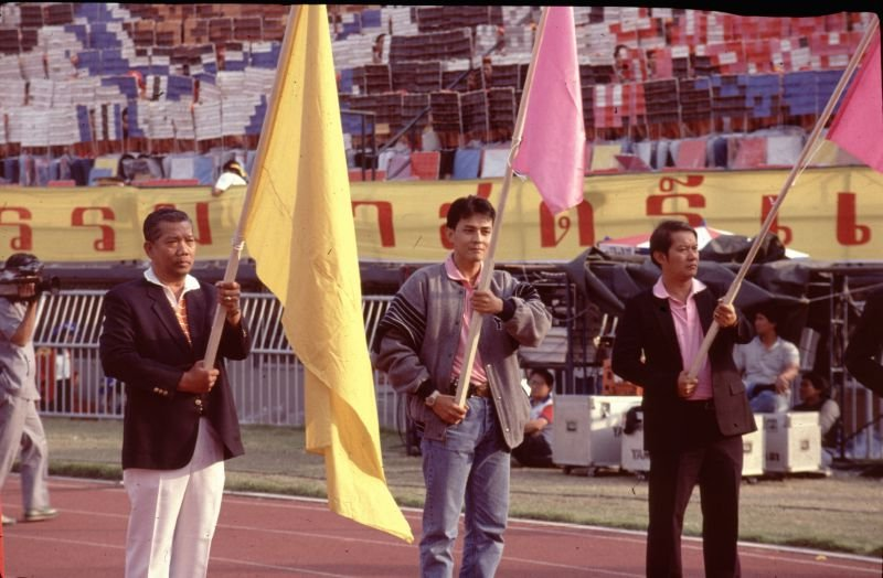 Samak Sundaravej